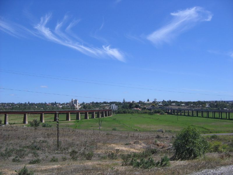 The rail (left) and road (right) bridge on the Murray River.